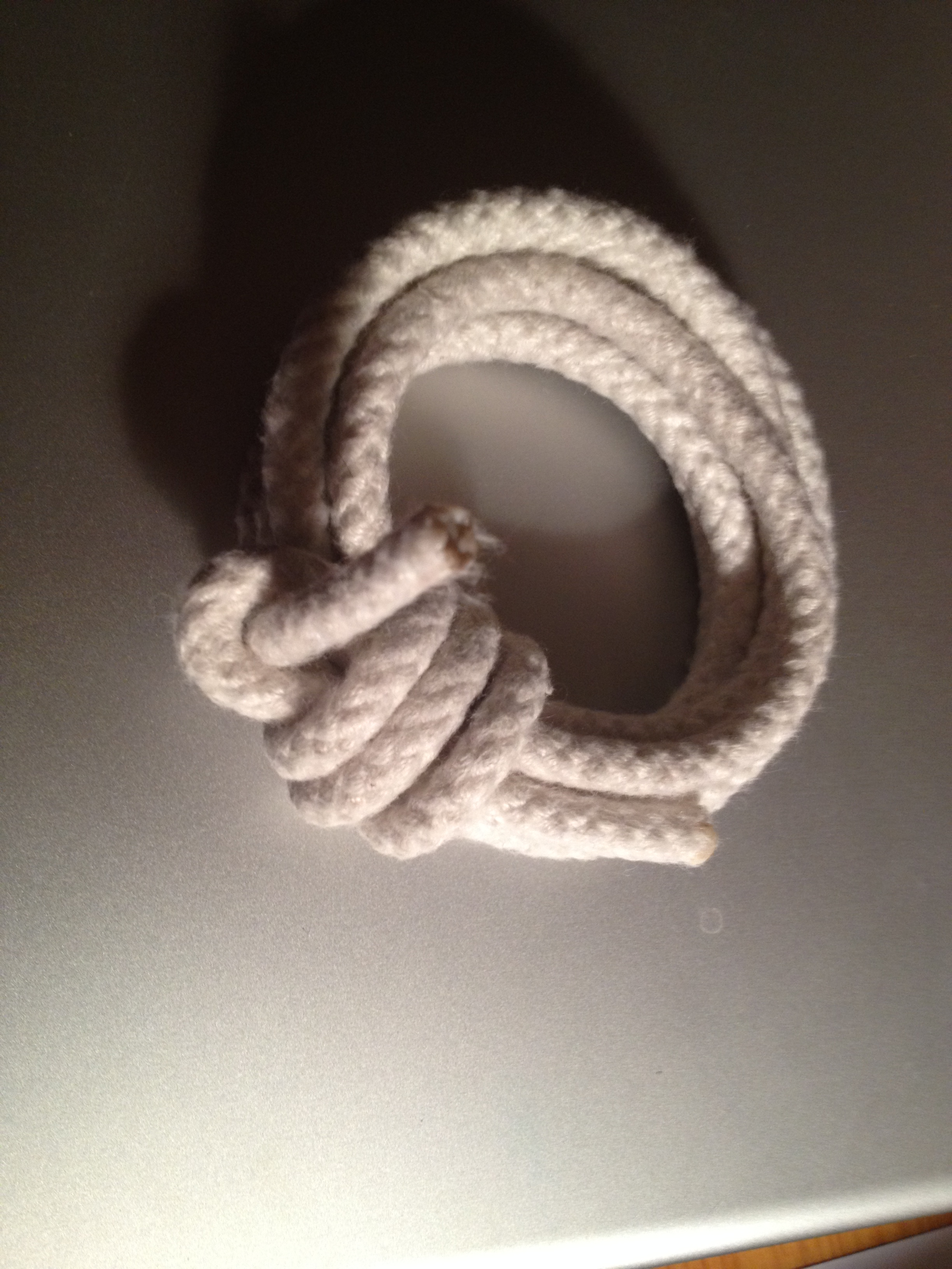 Alpine coil a method of packaging / organizing / storing / transporting long rope.